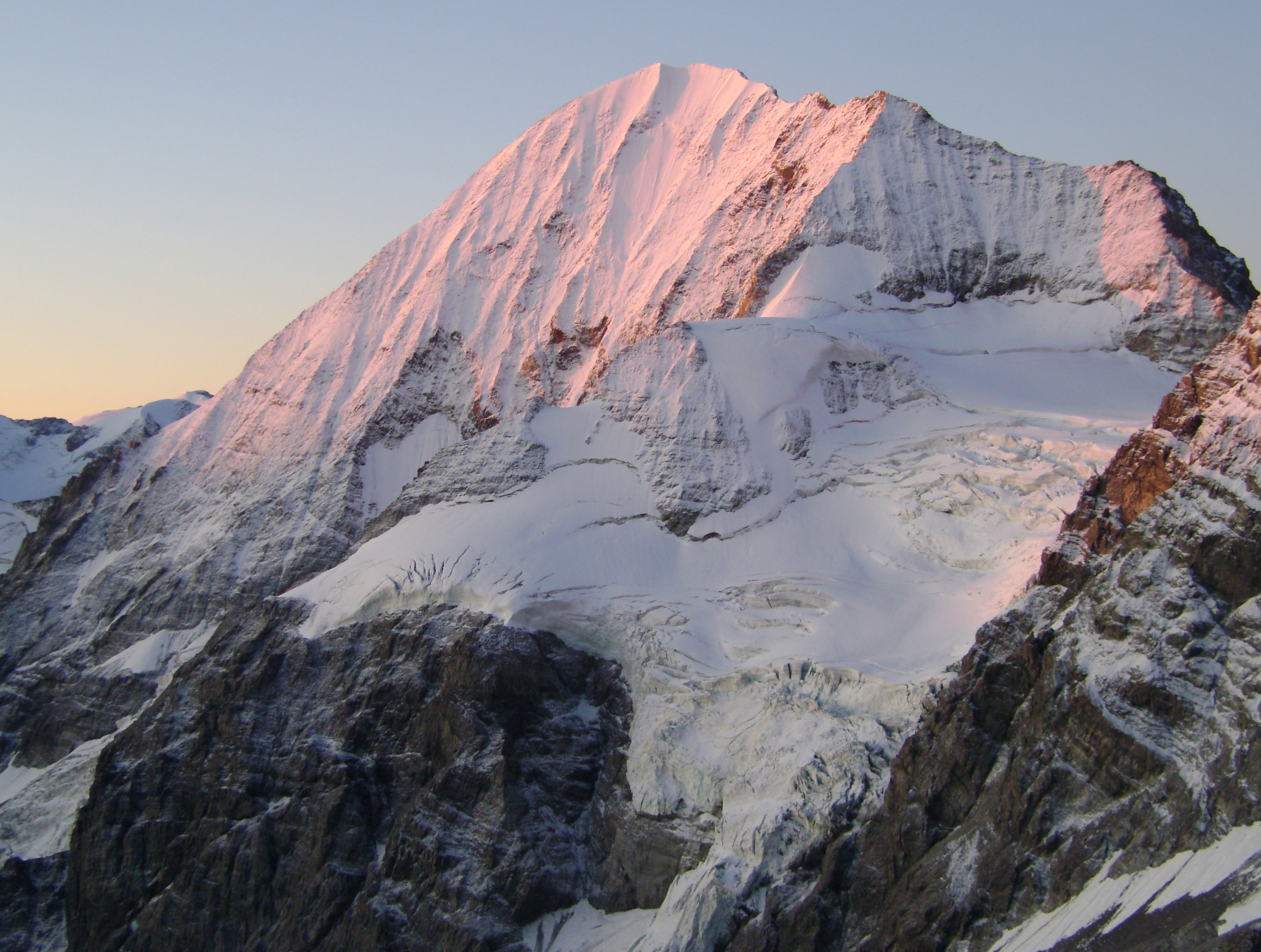 Königspitze at sunrise, seen from Hintergrat (Ortler)